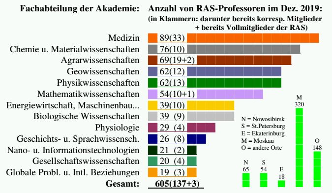 RAS Professors: statistical data (specialty, regions) as of December 2019, in German